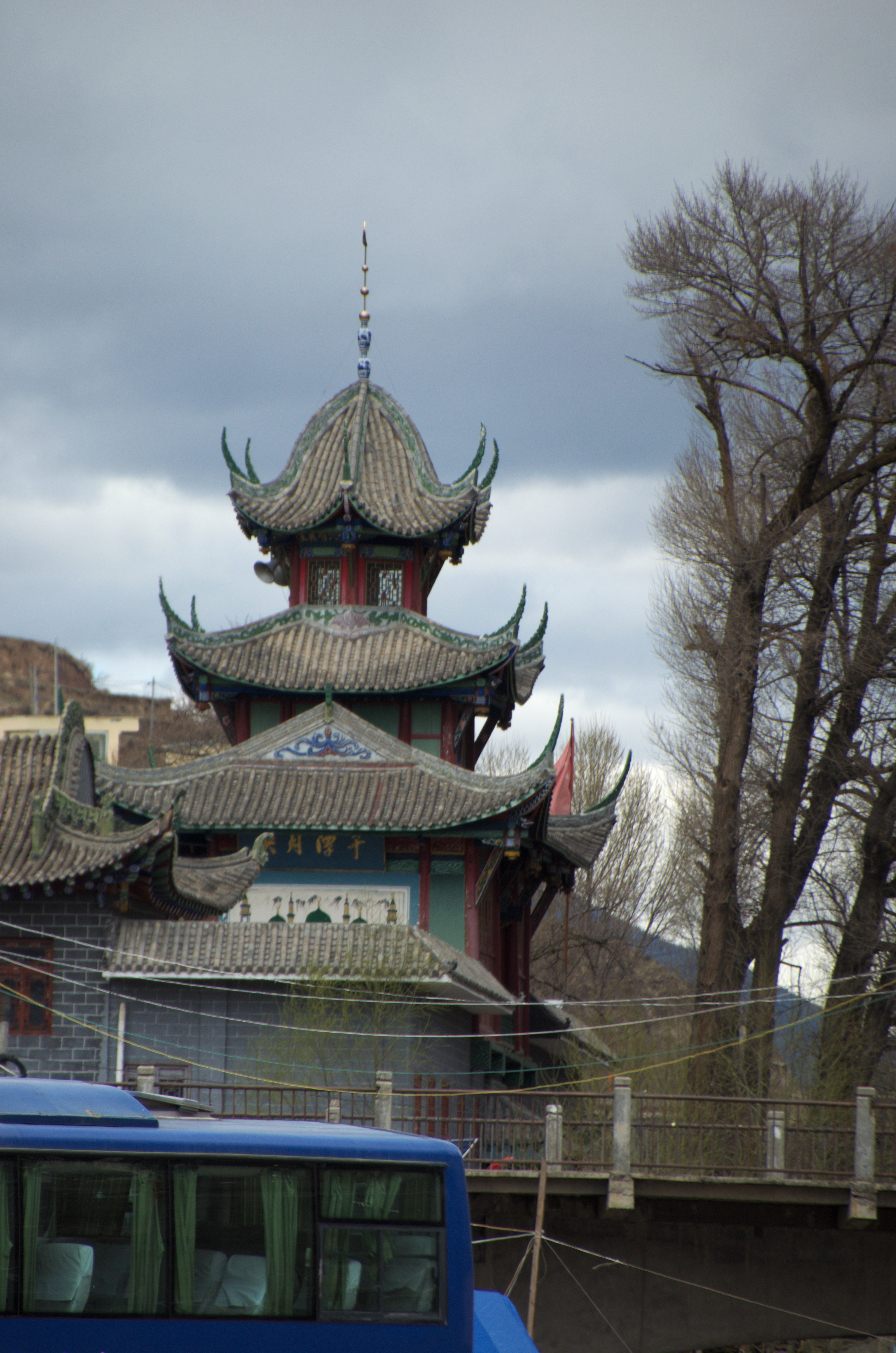 Sichuan province, Songpan County (松潘县), mosquee called "Songpan North Mosquee" (松潘清真北寺).